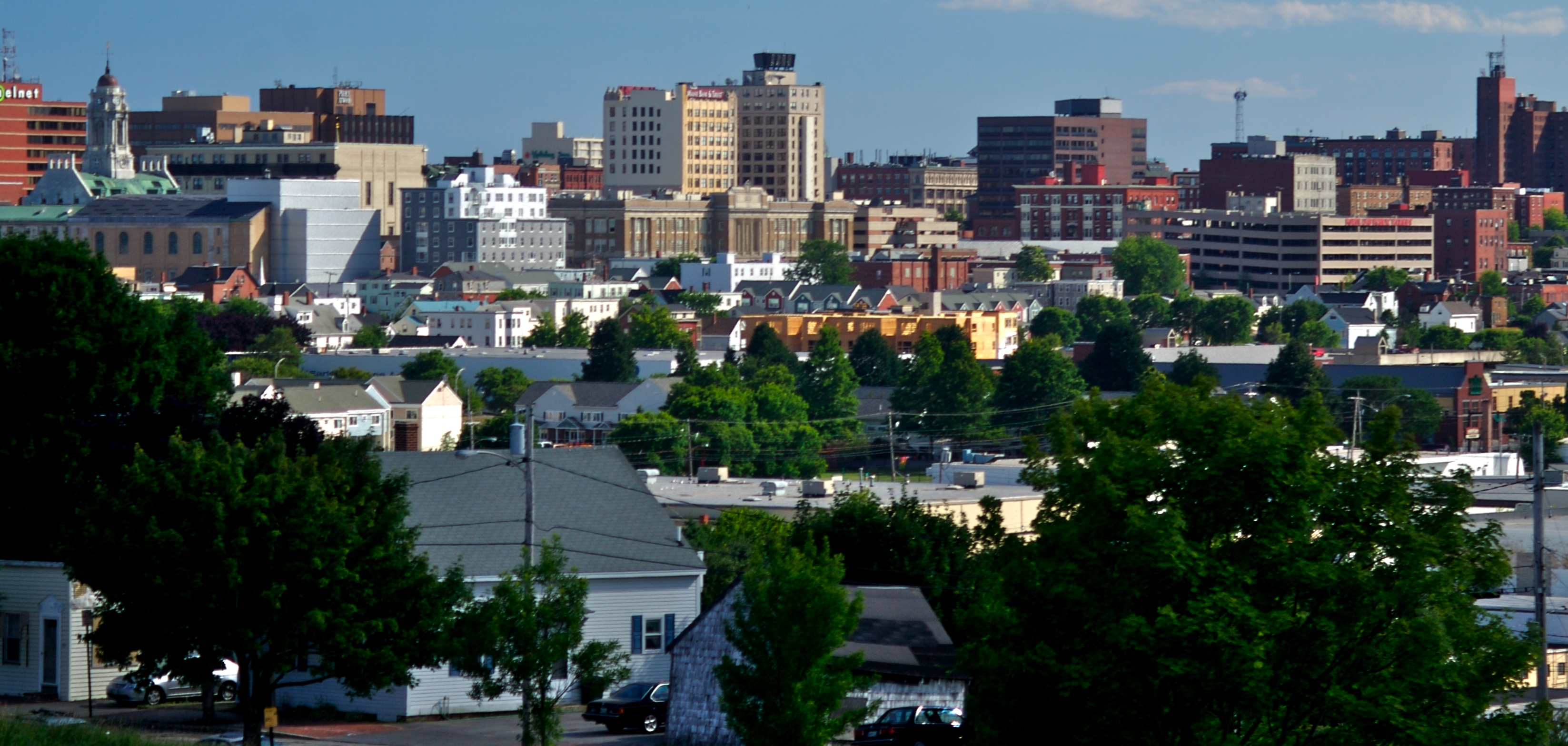 Downtown of Portland, Maine. Taken from North St. near the East End School.